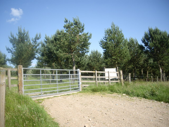 Agroforestry, Glensaugh